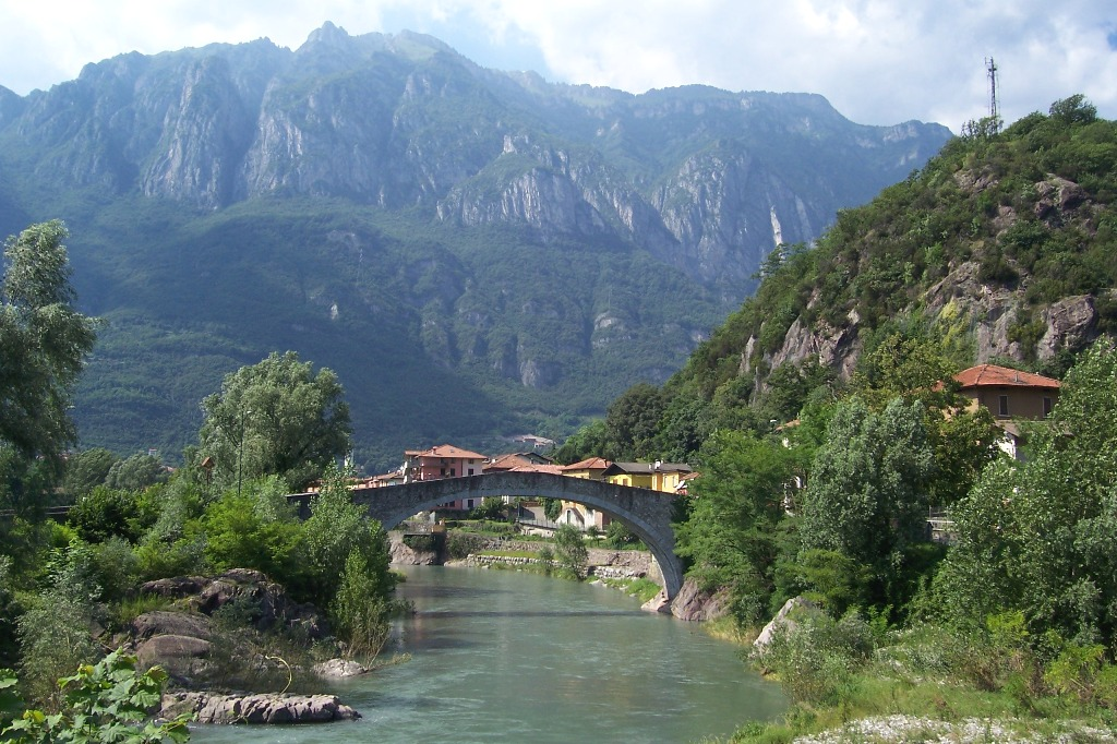 Bridge of Montecchio, Valle Camonica